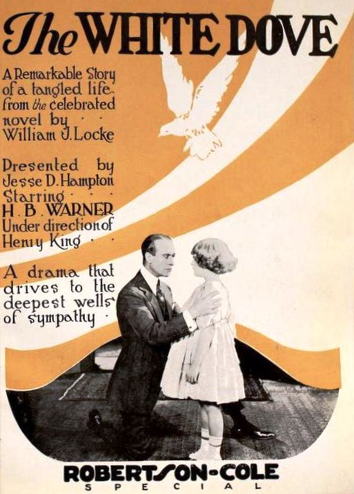 Ad for the American film The White Dove (1920) with H. B. Warner and Virginia Lee Corbin, on page 3055 of the April 3, 1920 Motion Picture News.